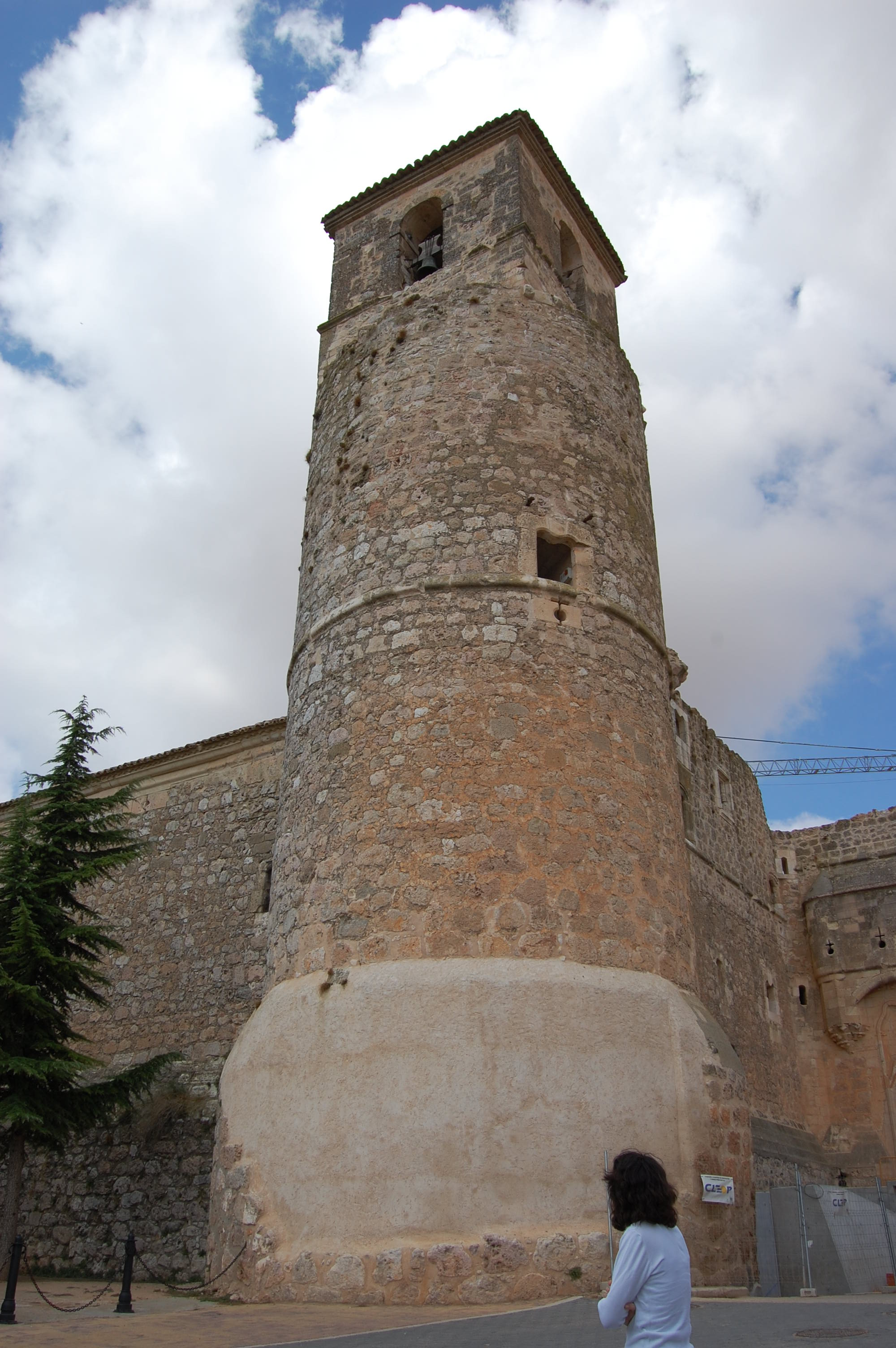 A Tower of Castillo de Garcimuñoz castle.